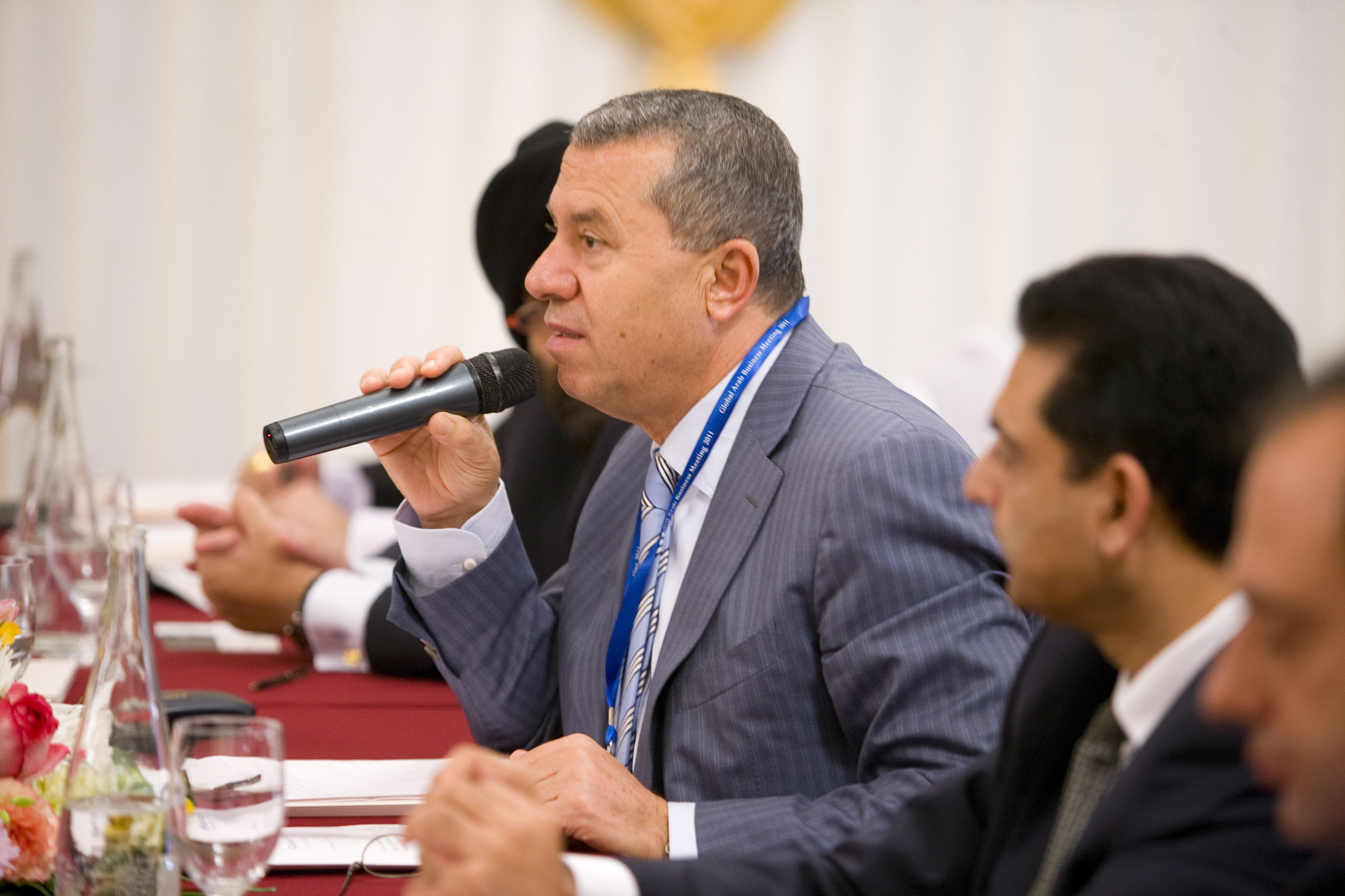 Khater Massaad, Chief Executive Officer, RAK Investment Authority, UAE, chairing a panel at the 2011 Horasis Global Arab Business Meeting